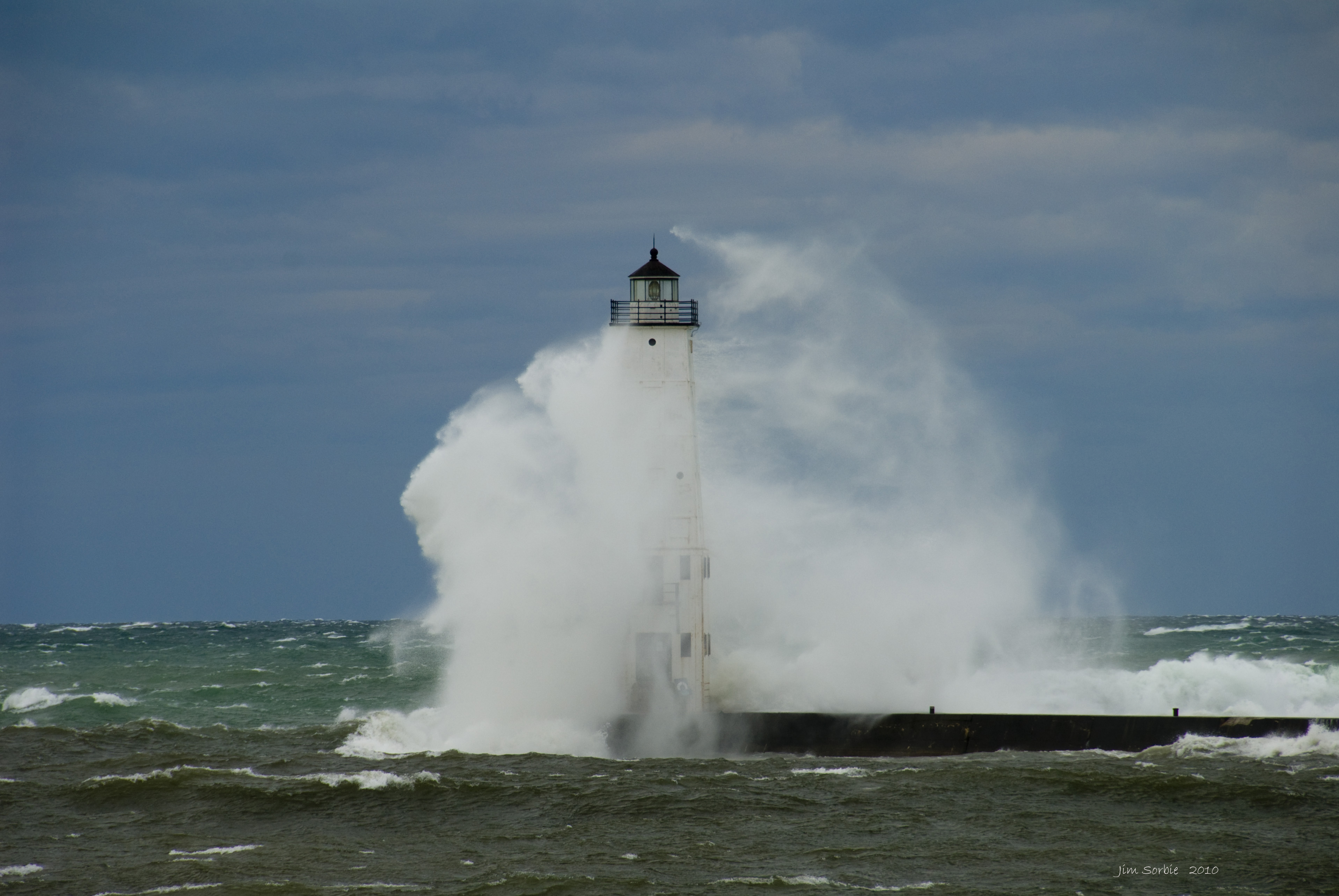 Frankfort Light, Michigan, USA